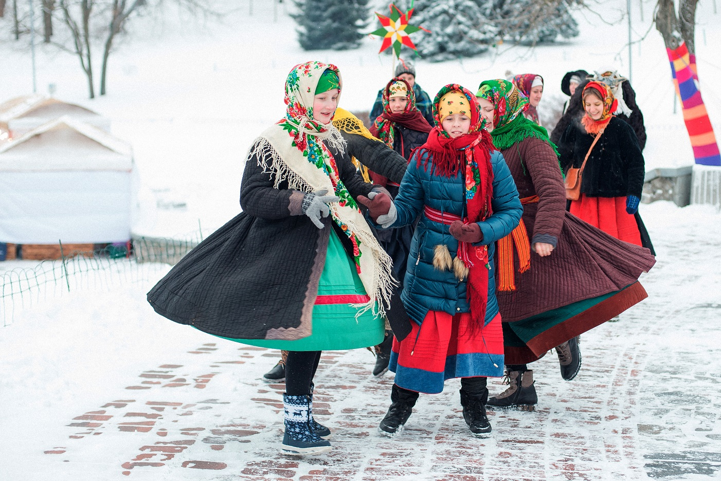 Wiki KM 006